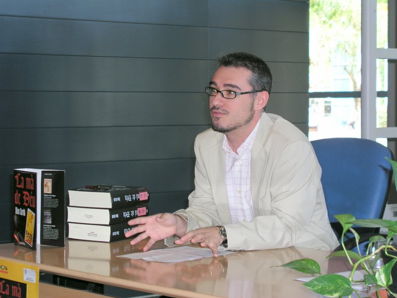 Ximo Cerdà presents "La mà de Déu" in 2007